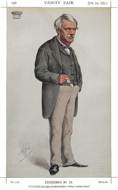 Caricature of John Lawrence, 1st Baron Lawrence. Caption reads "One of the best types of administrative ability in modern times".